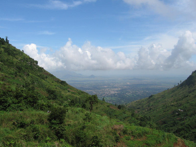 Morogoro from Uluguru Mountains, Tanzania